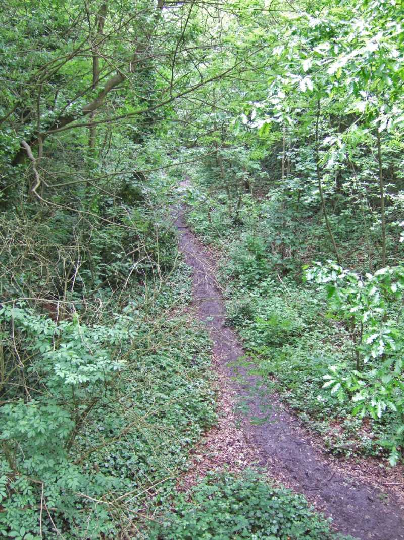 A view of the erstwhile trackbed in Sydenham Hill Wood from the footbridge on Cox's Walk. Taken on 28 May 2006 by Nick Regan.